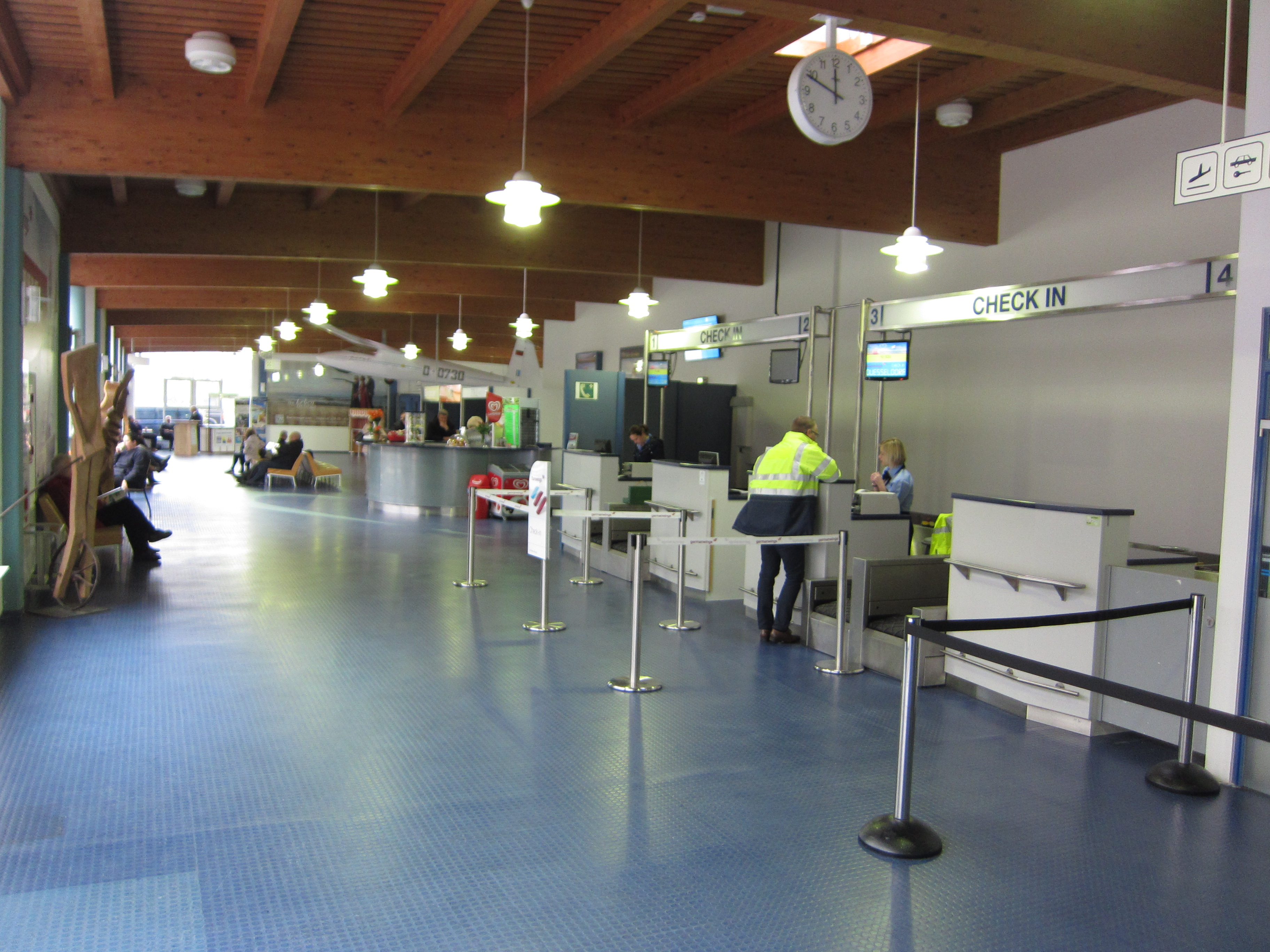 Check-in counter in terminal of Heringsdorf airport.